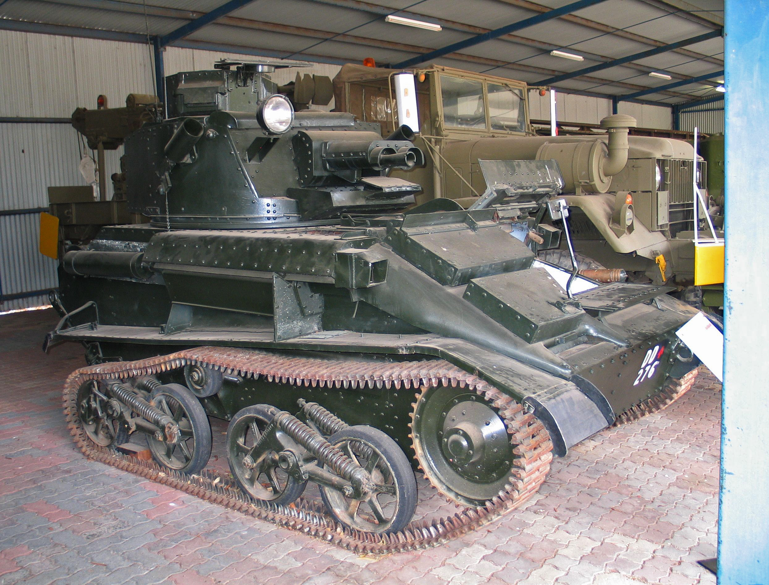 Vickers Mk VIA light tank in Royal Australian Armoured Corps Tank Museum, Puckapunyal, Victoria, Australia. This is one of the 10 vehicles purchased by Australia in 1936.